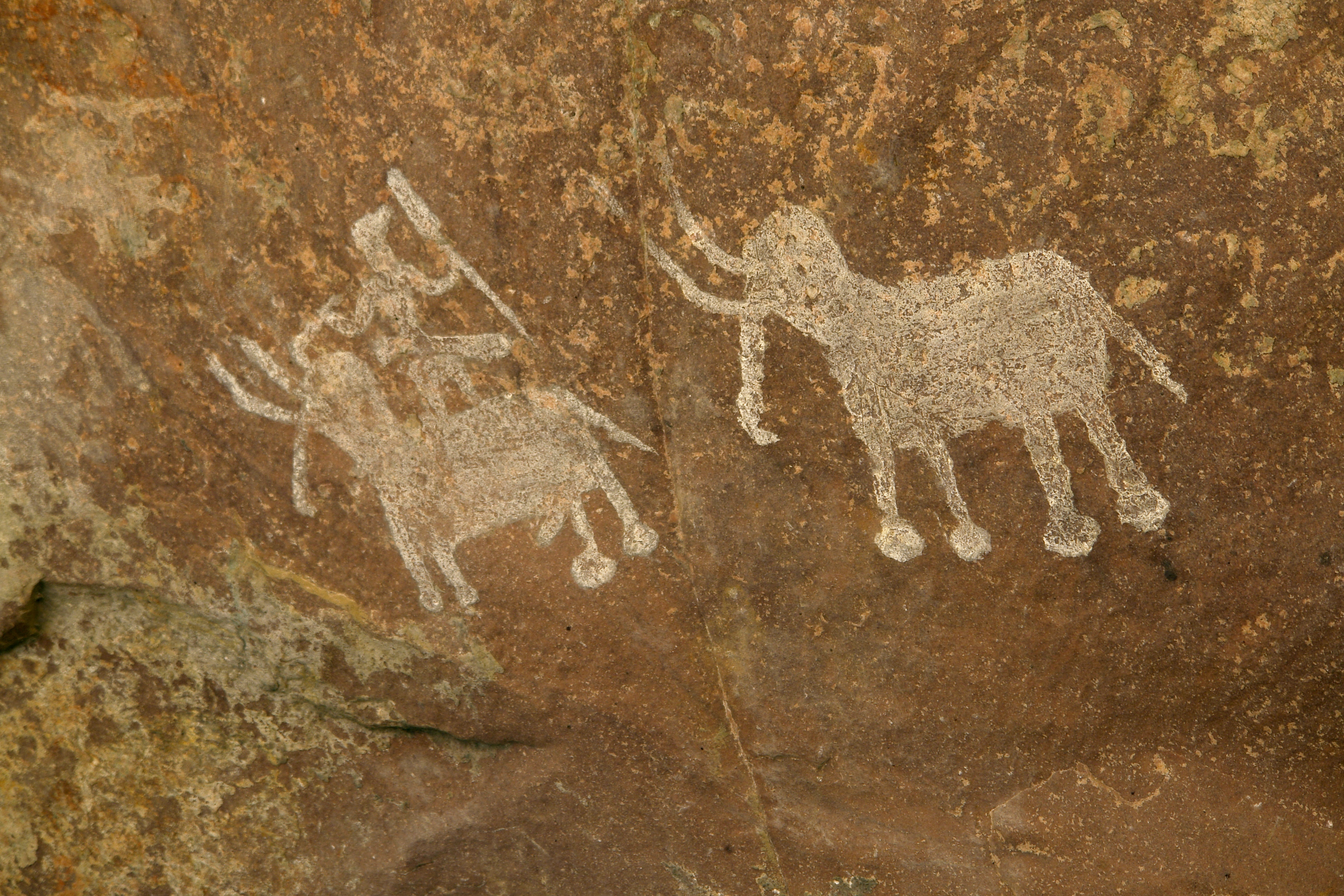 Mesolithic Rock painting, Bhimbetka, Raisen district, Madhya Pradesh, India.